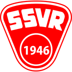 Logo of SSV 1946 Reutlingen (name of SSV Reutlingen 05 in the French Zone of Occupation until 27 February 1950)